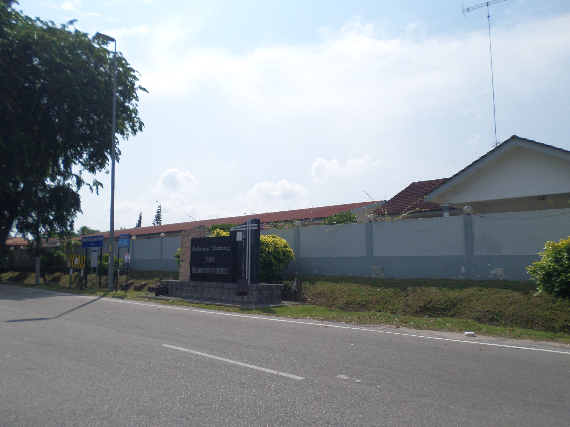 Merlimau Industrial Area, Merlimau, Jasin, Malacca, MalaysiaBahasa Melayu: Taman Perindustrian Merlimau, Merlimau, Jasin, Melaka, Malaysia